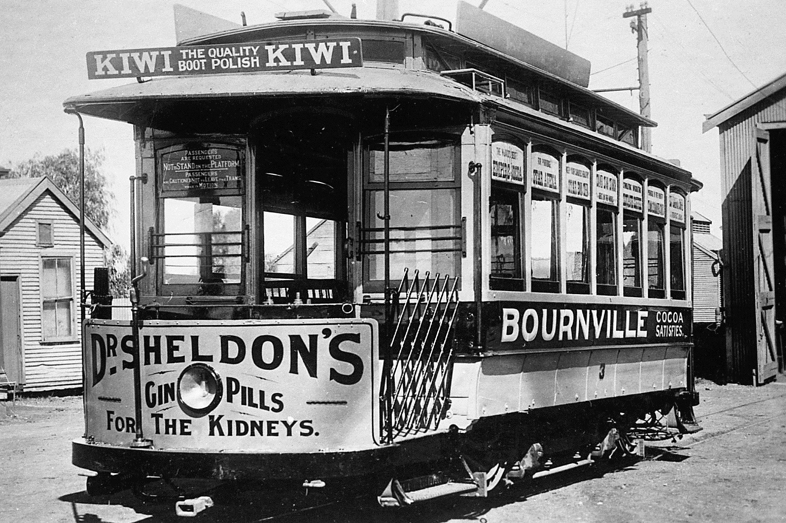 Kalgoorlie tramcar no. 3 at the car barn.